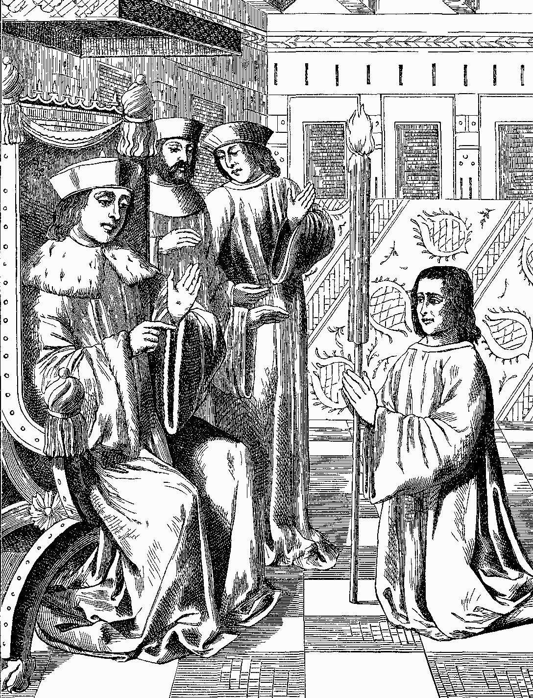 Jacques Cœur (justice)